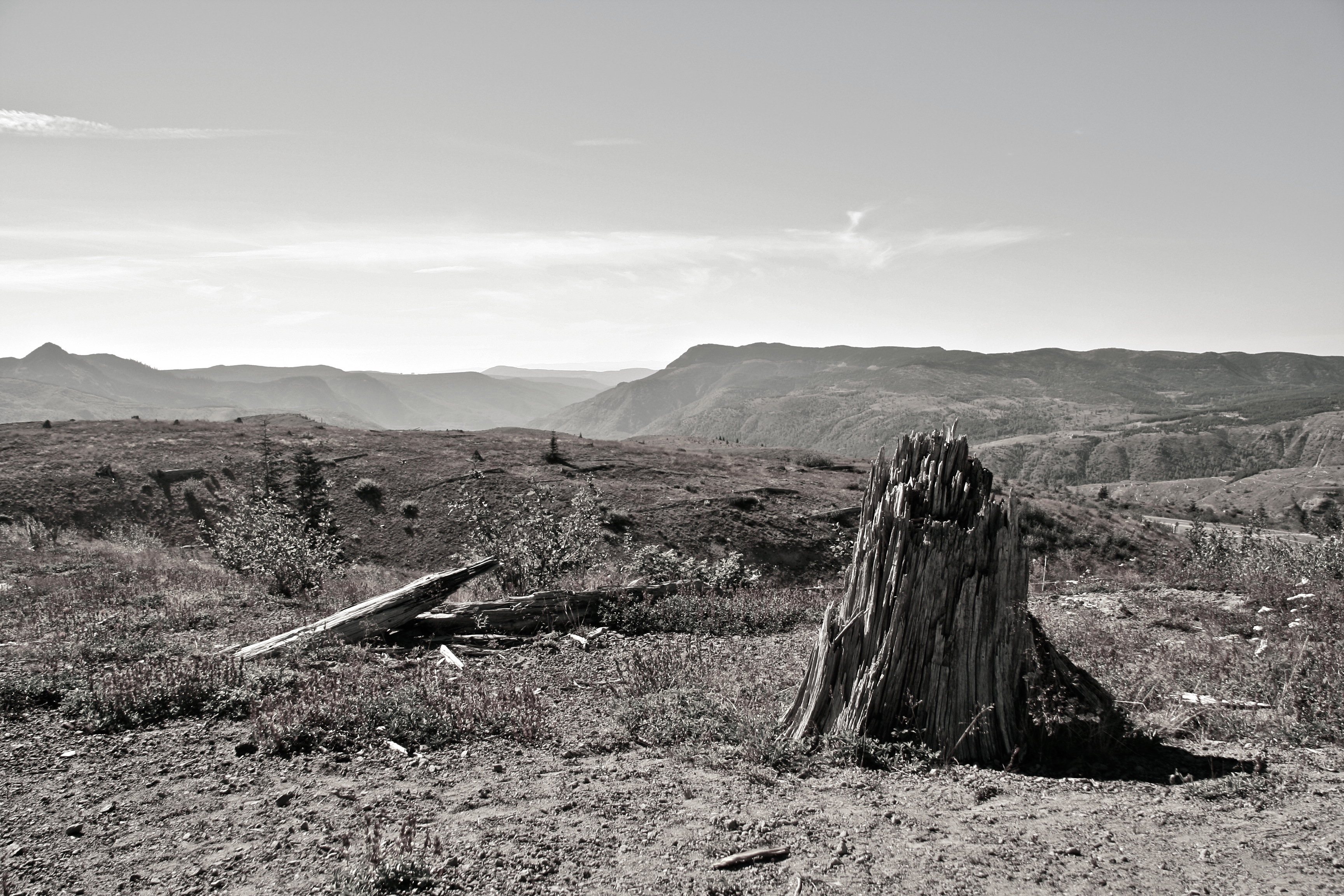 The remains of a tree near Mount Saint Helens (close to the Johnston Ridge Observatory). The force of the 1980 eruption snapped this tree at its base. There are many similar trees within a large radius of the mountain.